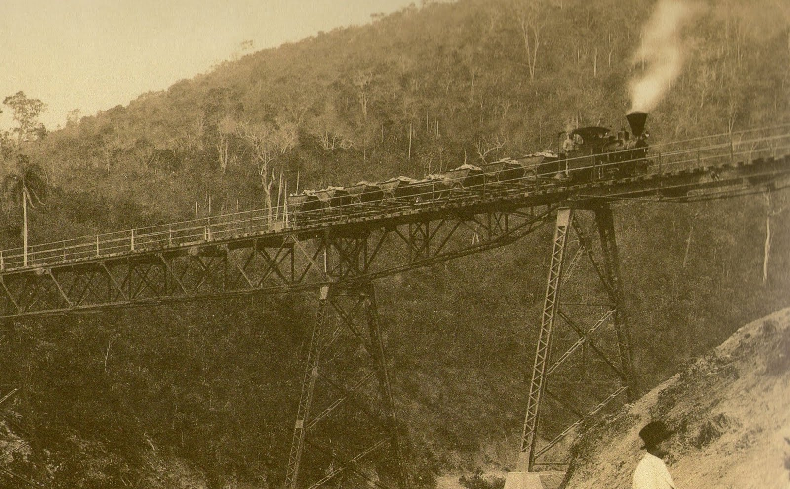 One of the Orenstein & Koppel steam locomotives used to bring stone from the quarry to the kilns at Gato Preto. Initially, they were not EFPP property and only became so much later. The bridge brought the line from the quarry down to the top of the kiln. It was demolished when the Anhanguera Highway was driven through the area, because one of the hills onto which the trestle abutted was torn down to make way for the road.